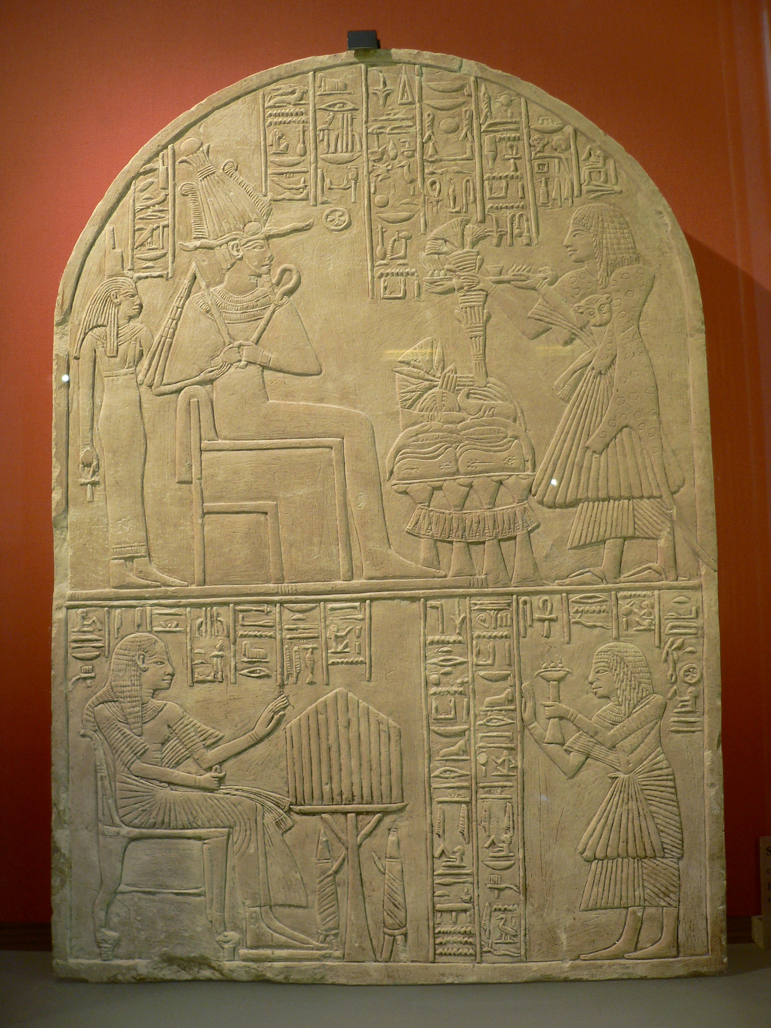 Stele of Iuny, intendant and priest-reader. Upper register: Osiris and Isis; lower register: Iouny's son presents him with gifts. Limestone, New Kingdom.